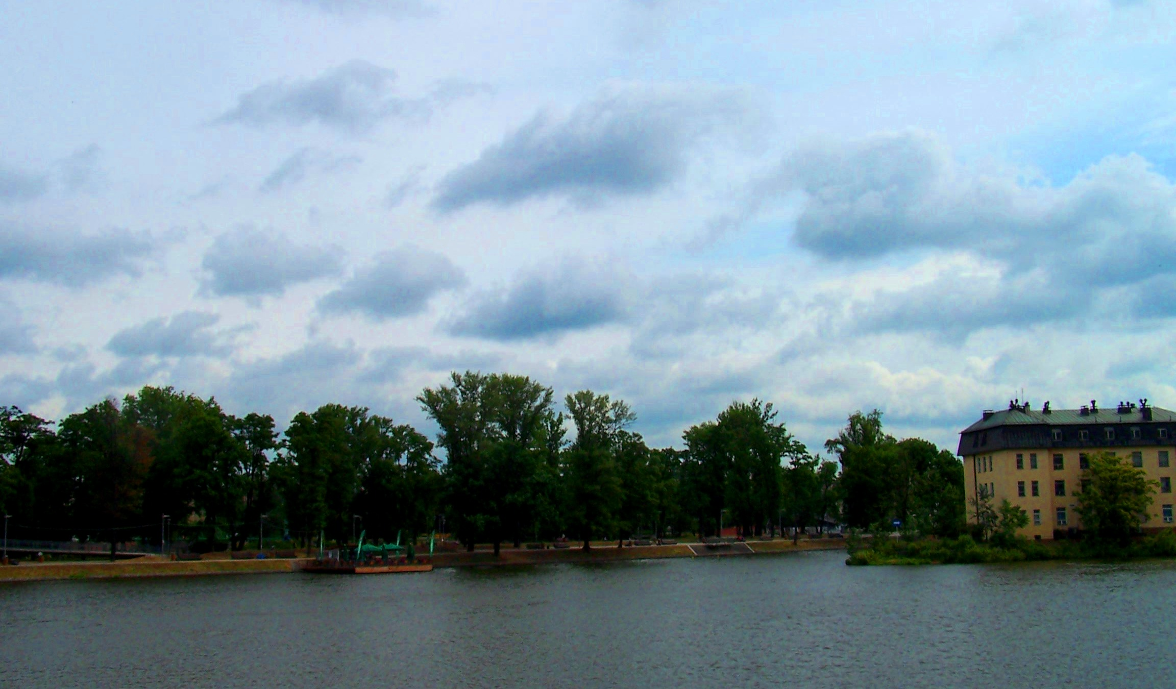 Wrocław, Slodowa Island from University Bridge